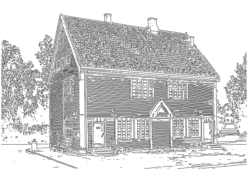 Thresholded Canny edges of Lena stasjon using Rosin's algorithm